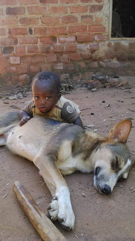 In Uganda, the local set up of village in the peasantry setting the children are most of the time playing with the domestic animals that with time come to recognize them and if any stranger comes and by mistakes touches the child is not immune from the attack in this from this dog, "junior". come experience this in Uganda and I guess in other parts of Africa. Ssewankambo.